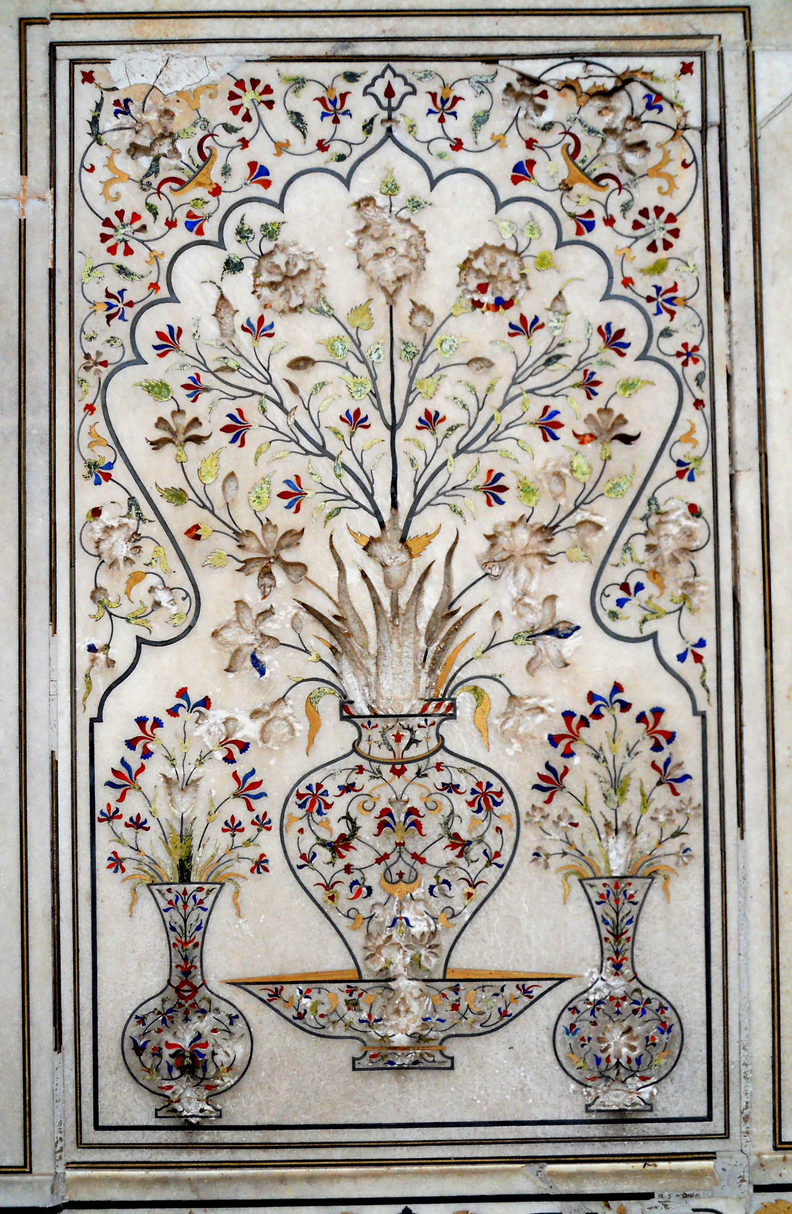 Lahore Fort complex (including Moti Masjid, Naulakha Pavilion, Sheesh Mahal and others) This is a photo of a monument in Pakistan identified as the PB-67